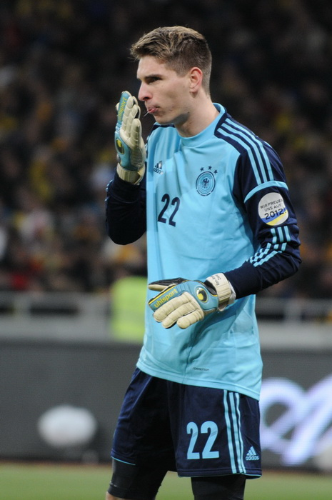 German player Ron-Robert Zieler during match against Ukraine